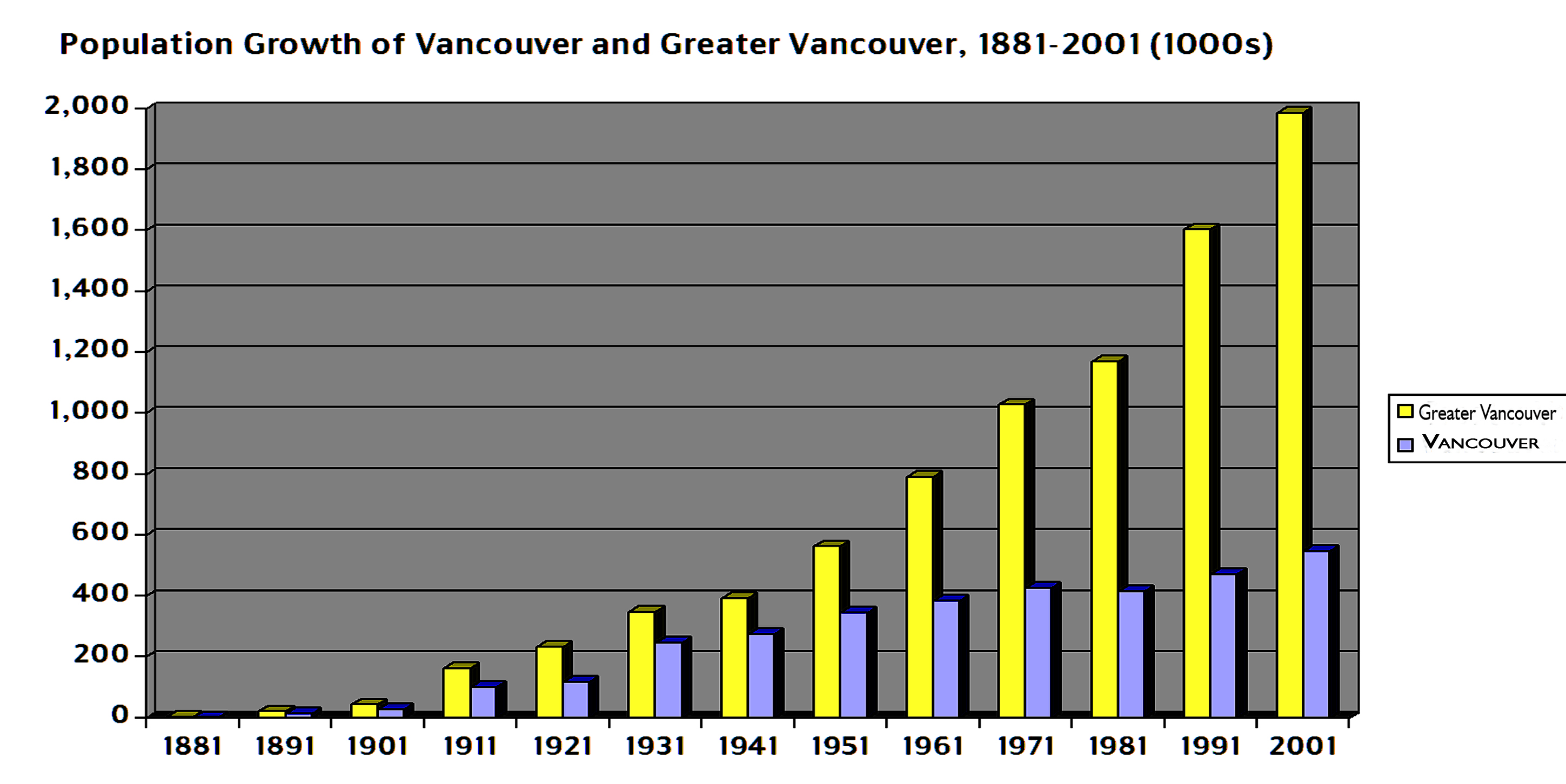 Population by year graph, based on census data, for Greater Vancouver and Vancouver, BC, Canada